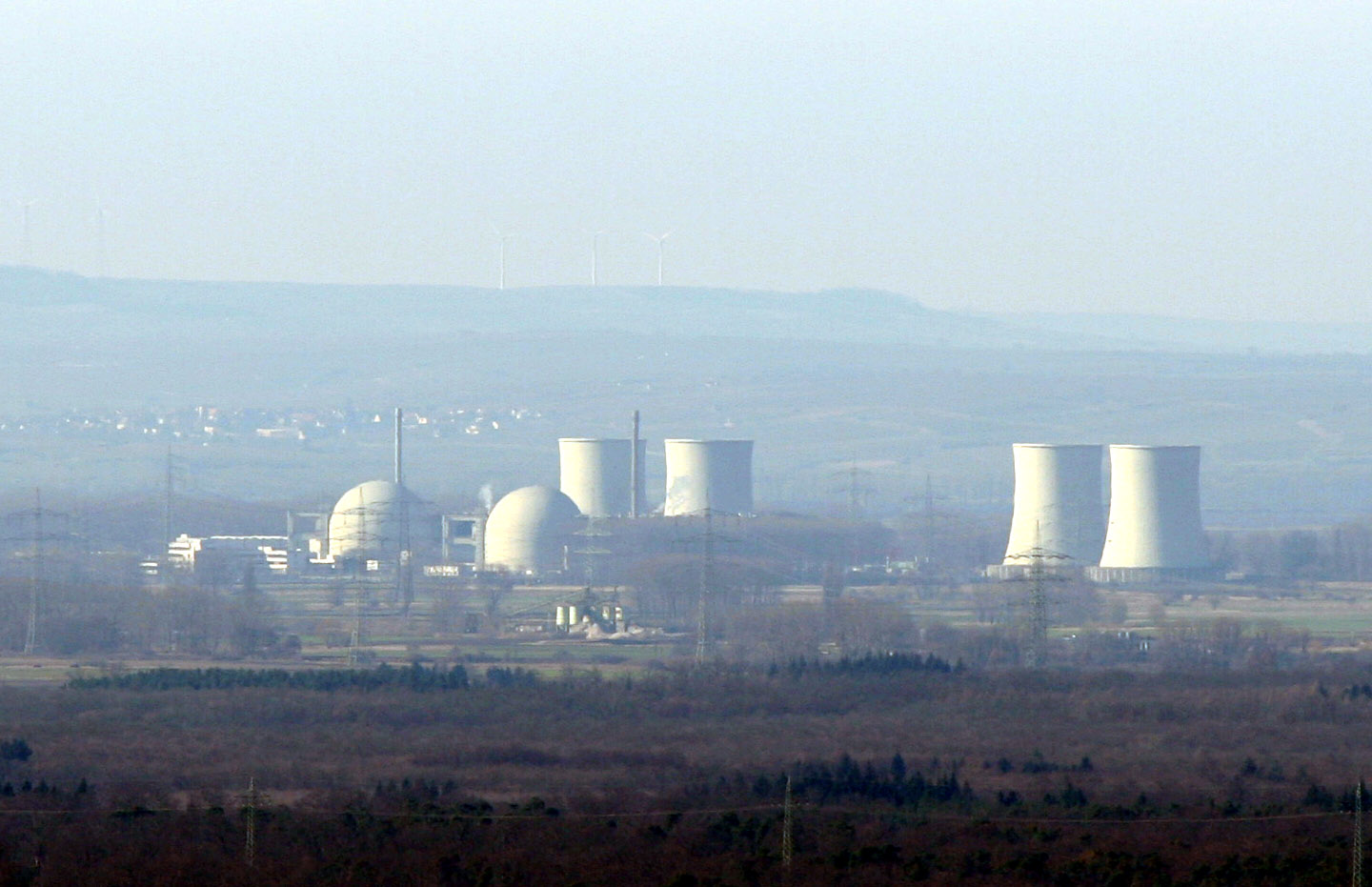 Biblis Nuclear Power Plant, seen from the Bismarck tower at the top of the Hemsberg in Bensheim (Hesse, Germany)